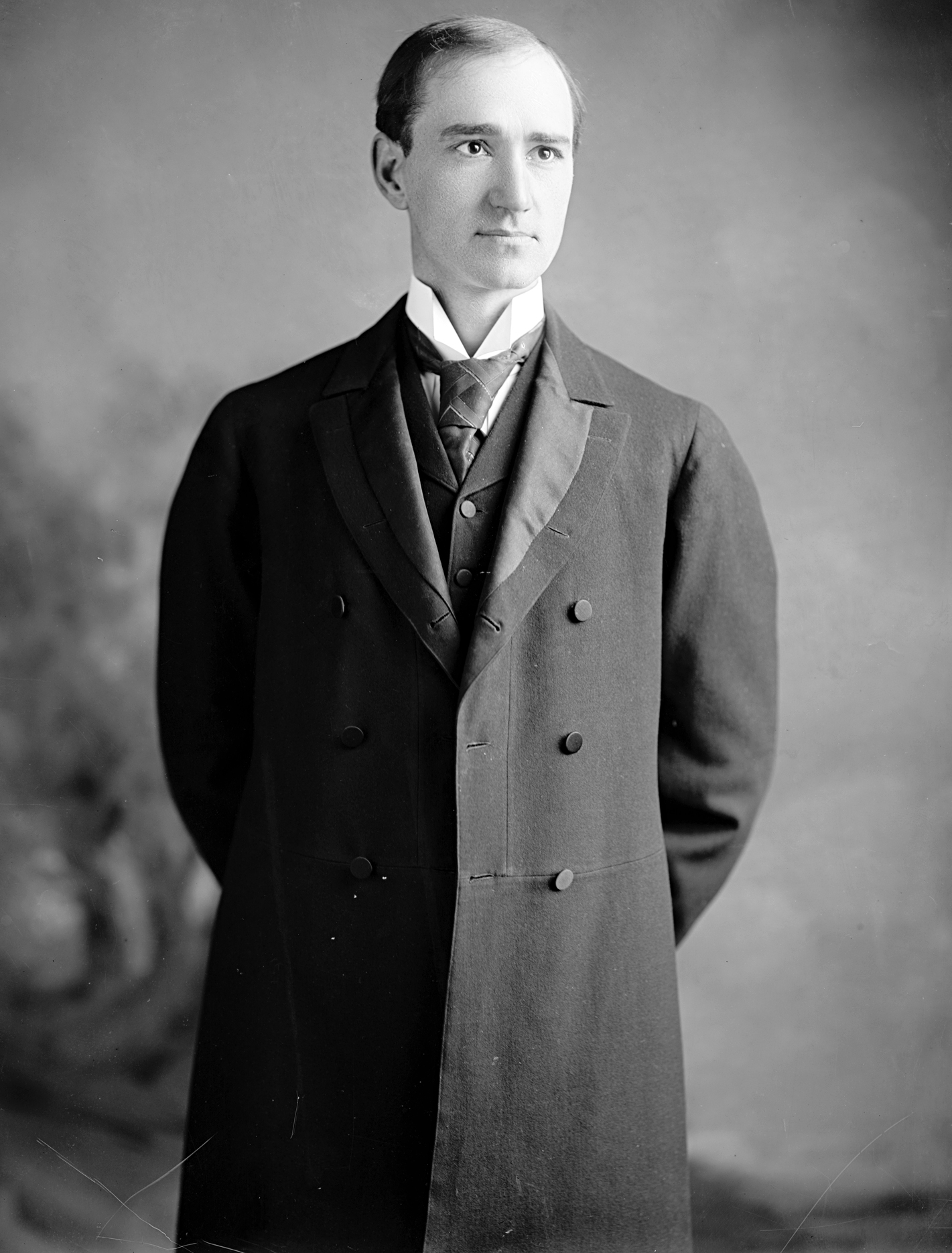 Finis J. Garrett, US Representative from Tennessee